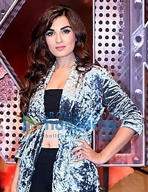 Cropped version of Shiny at Fear Factor: Khatron Ke Khiladi 8 launch